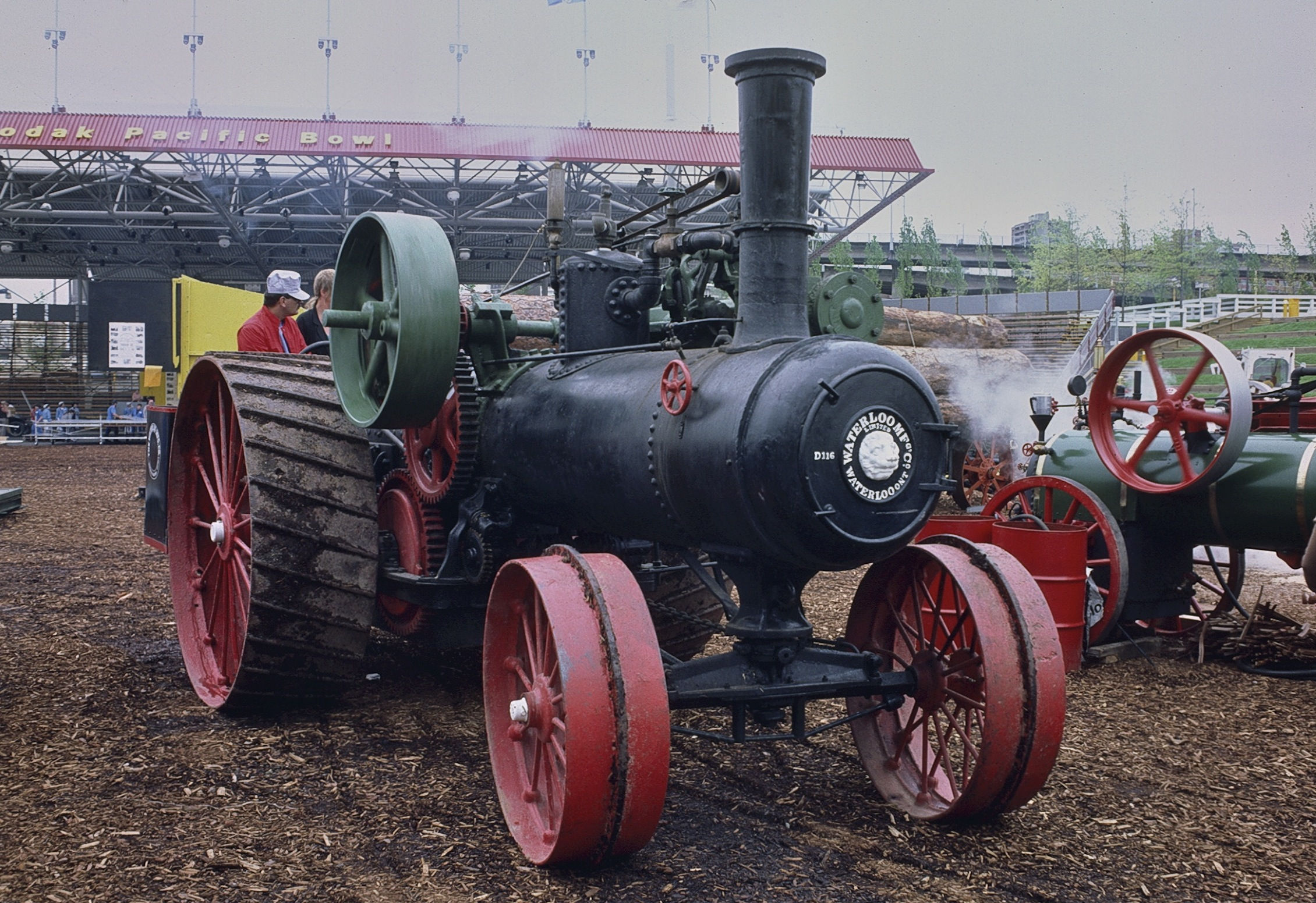 A steam-powered tractor (or traction engine) built by the Waterloo Manufacturing Co. Ltd. (of Waterloo, Ontario) on exhibit at Expo 86, in Vancouver, B.C.